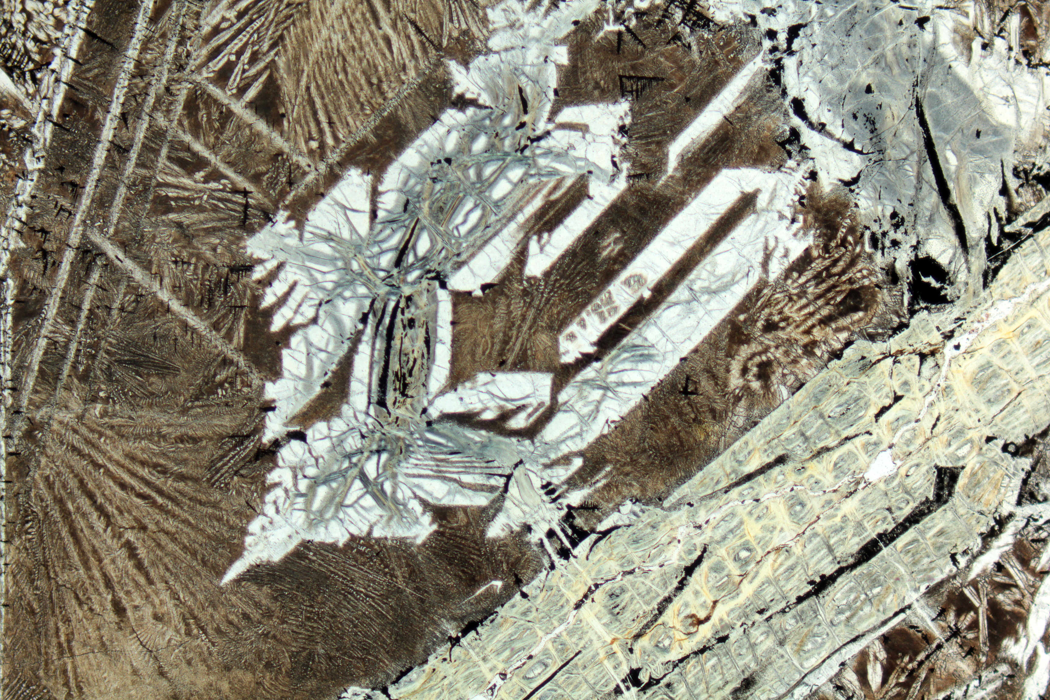 Skeletal olivine crystal (grey-green) in a Komatiite lava from Alexo, Ontario, Canada. Plane polarized light image, magnification 2x (Field of view = 7mm)